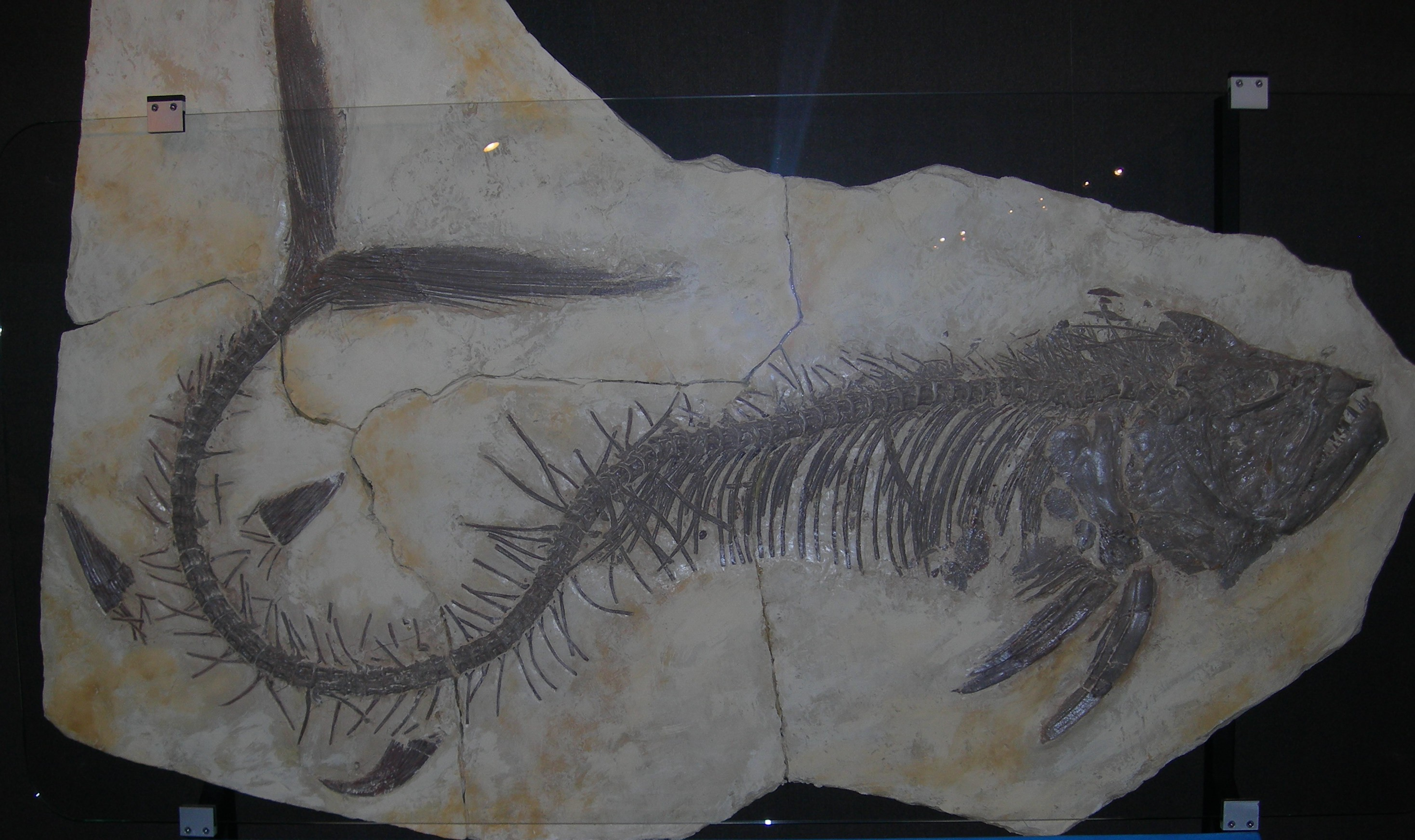 Fossil Xiphactinus audax, at the Natural History Museum of Geneva.